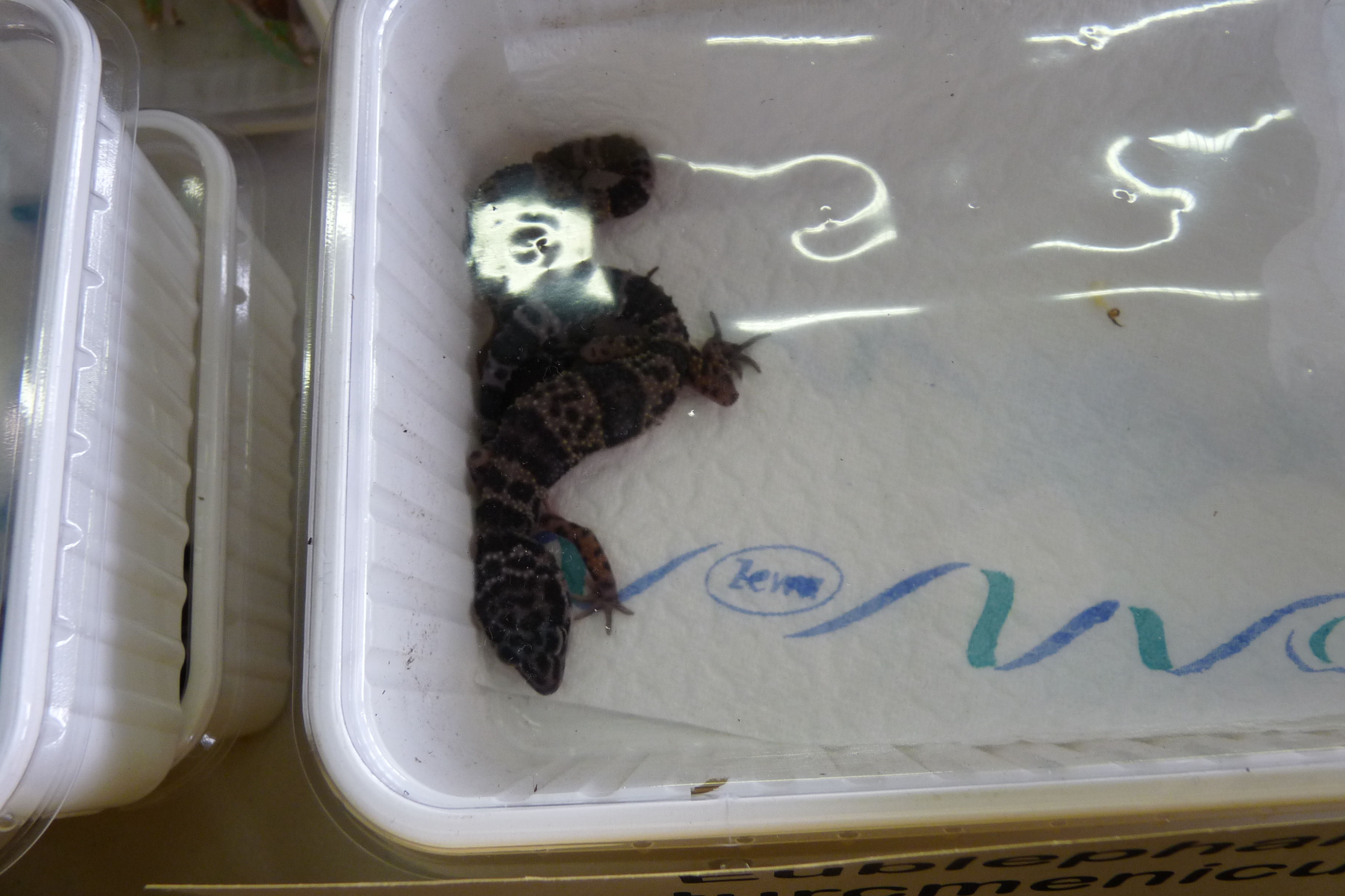 Eublepharis turcmenicus in captivity.